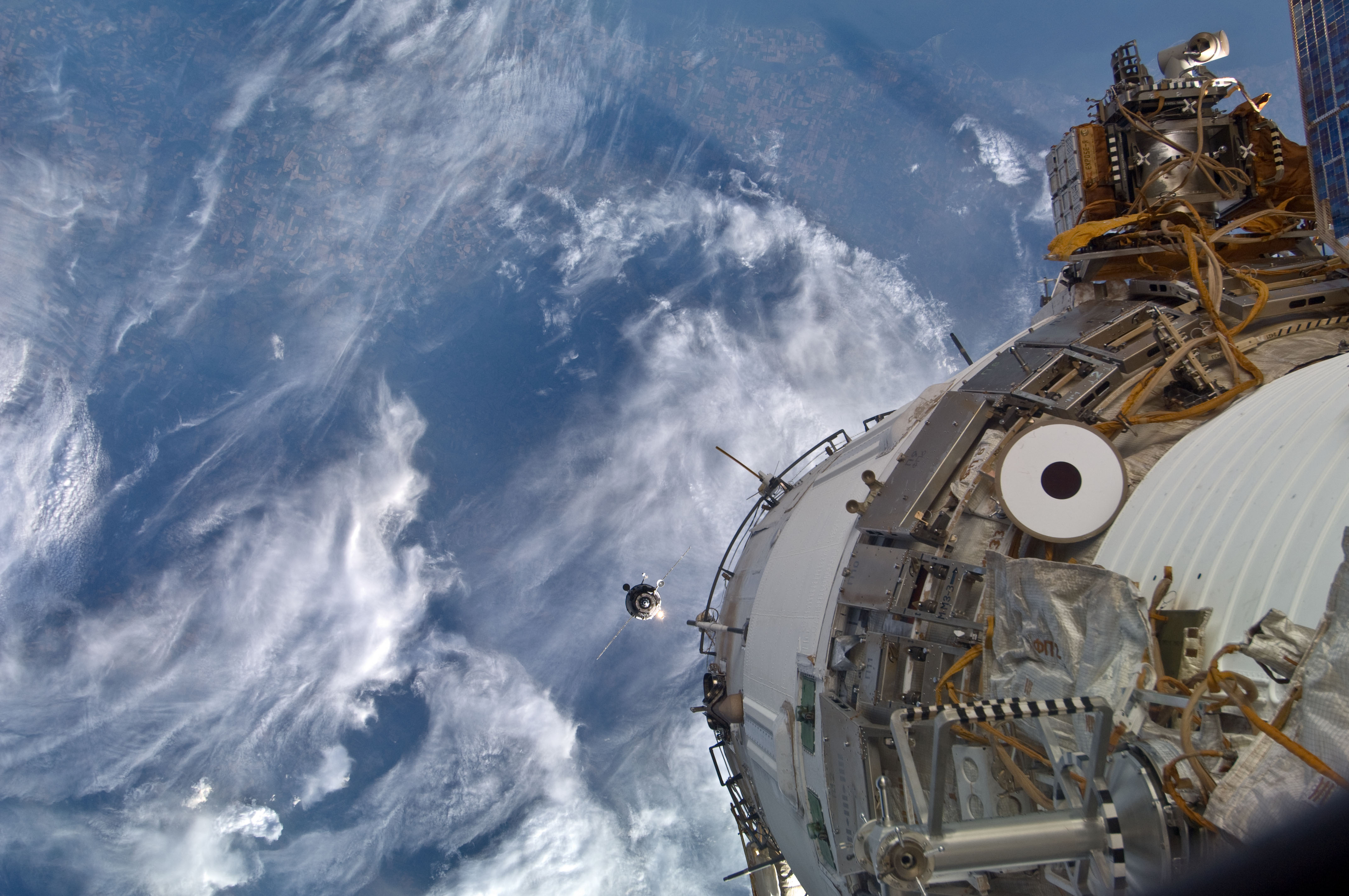 An unpiloted ISS Progress resupply vehicle approaches the International Space Station, bringing almost two tons of food, fuel, oxygen, propellant and supplies for the Expedition 24 crew members aboard the station. After an aborted docking on July 2, Progress 38 successfully docked to the aft end of the Zvezda Service Module at 12:17 p.m. (EDT) on July 4, 2010. The docking was executed flawlessly by Progress' Kurs automated rendezvous system.